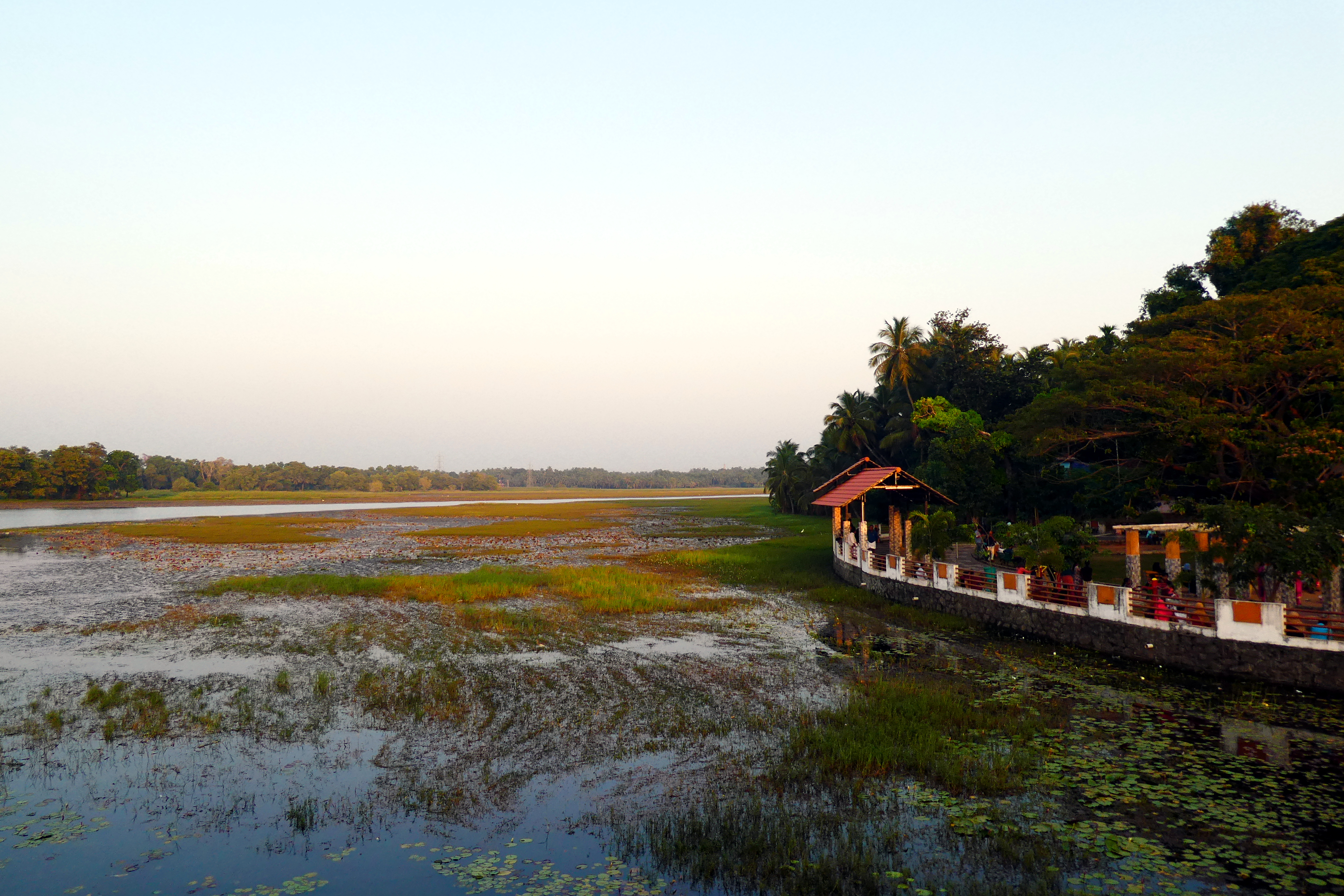 Biyyam Kayal Park from bridge over Beeyam Kayal River, near Edappal, Kerala, India